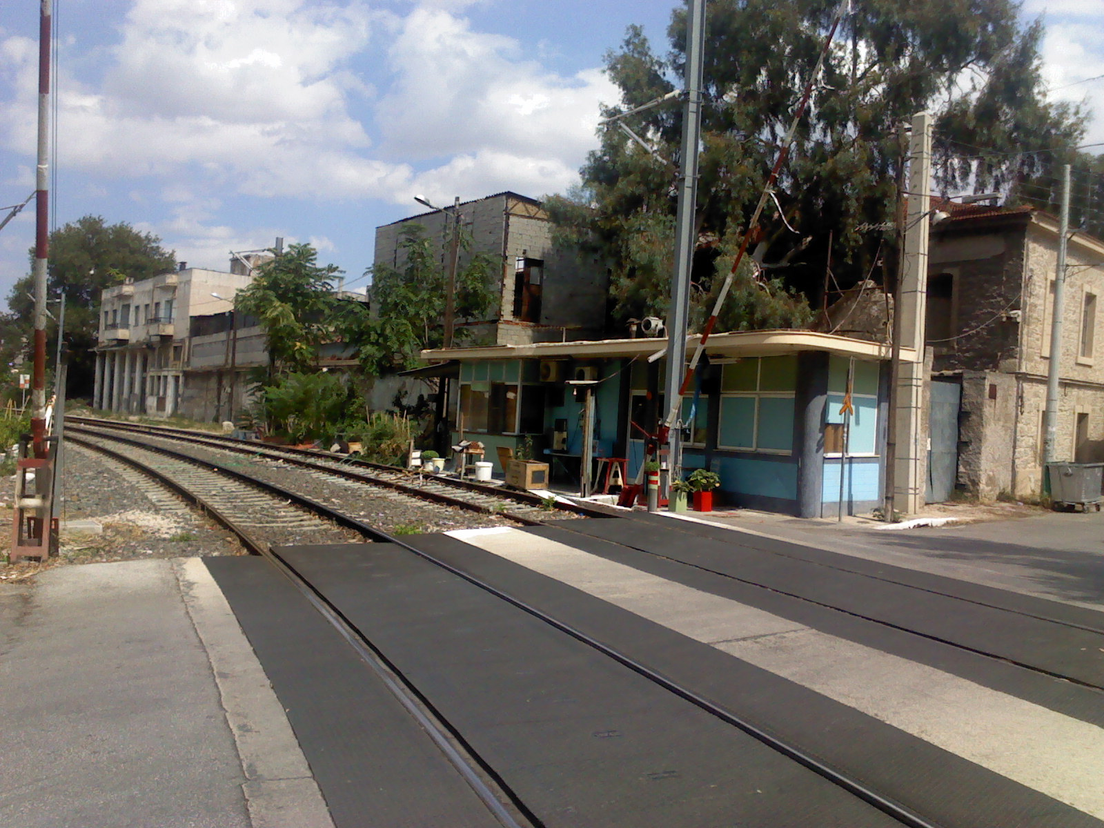 Factories Retsina in OSE